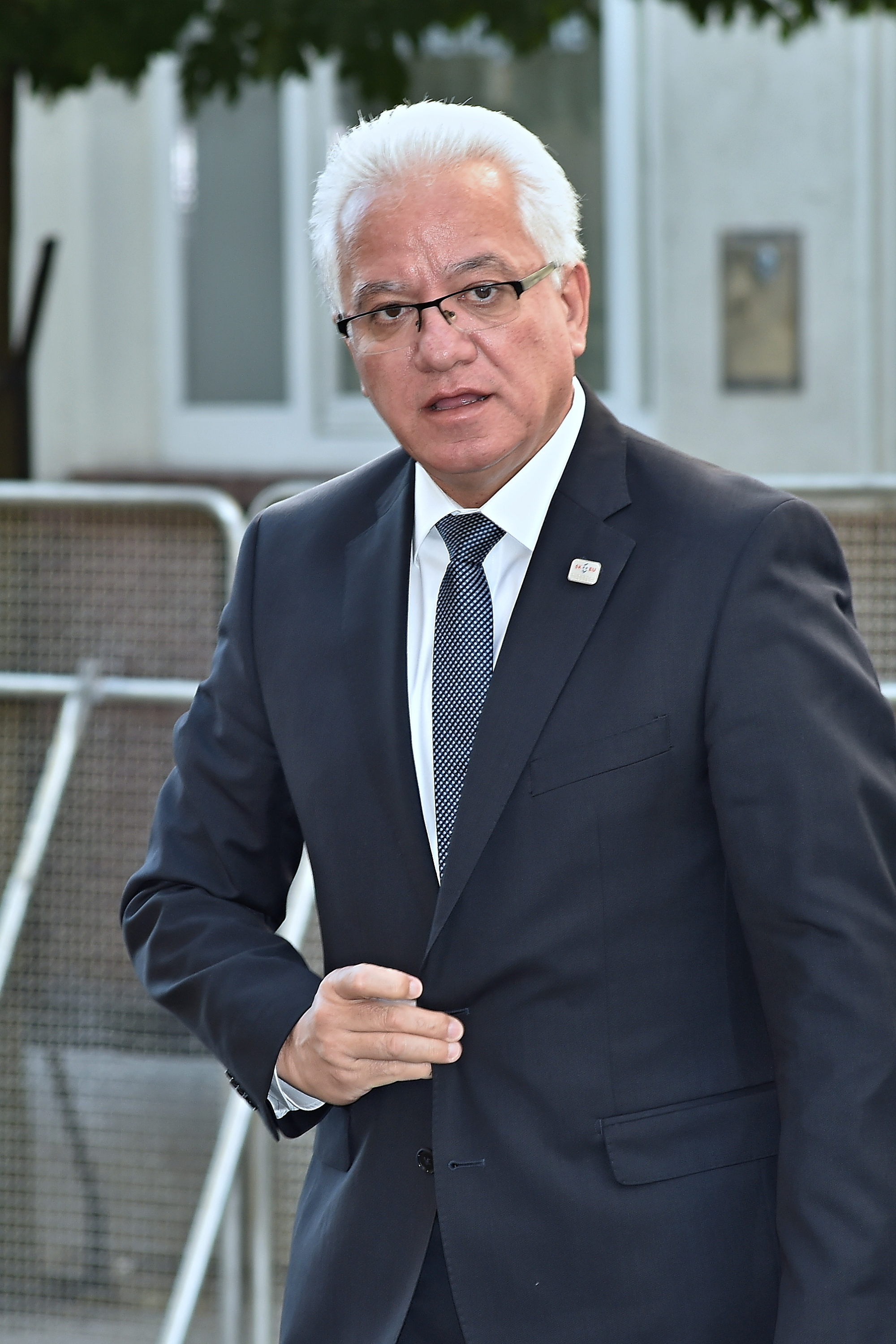 Cyprus, Mr. Nicolau Ionas, Minister of Justice and Public Order Informal Meeting of Justice Ministers Photo Rastislav Polak